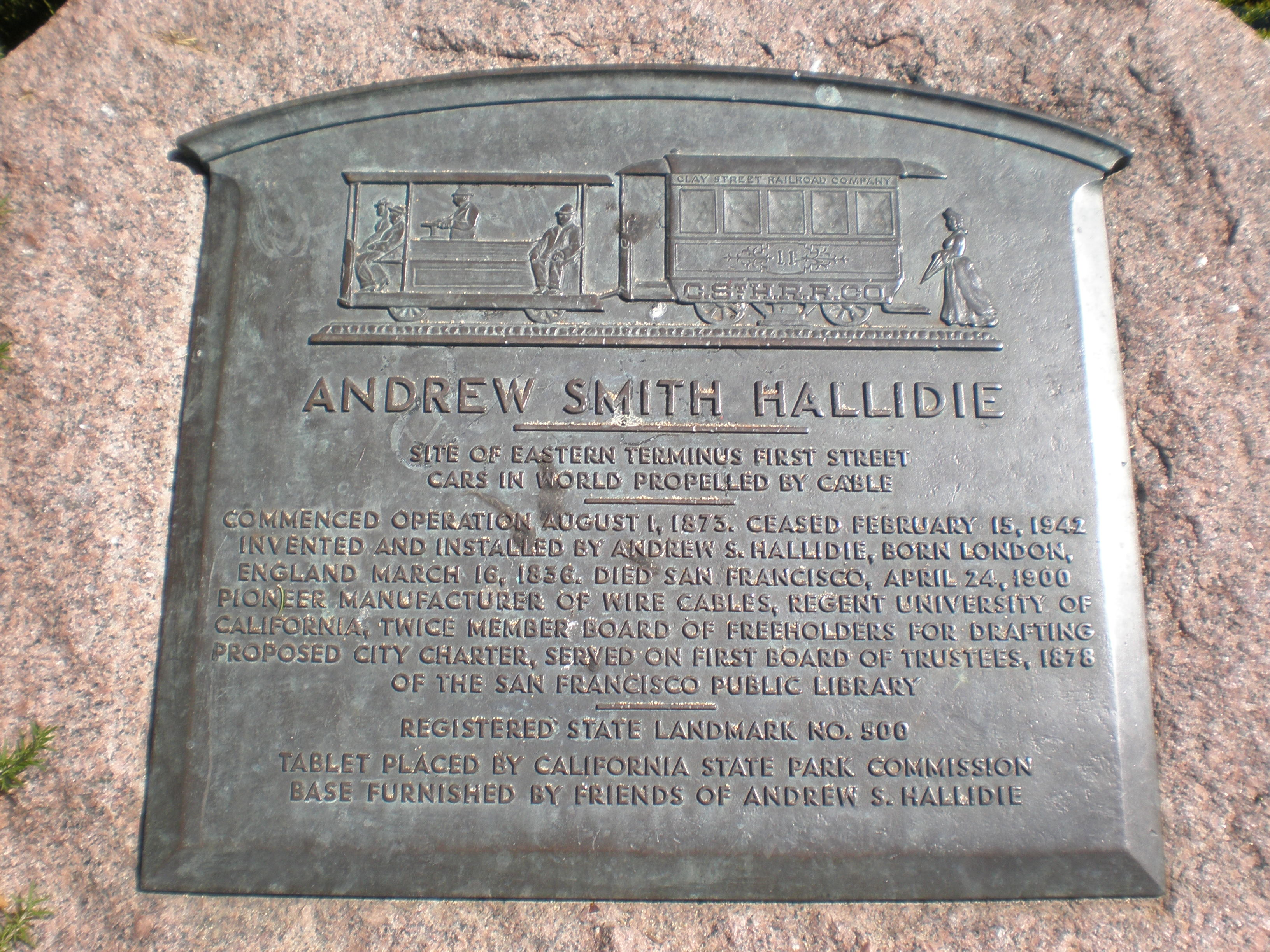 A plaque in Portsmouth Square in San Francisco commemorating the site of the eastern terminus of the first cable car line.